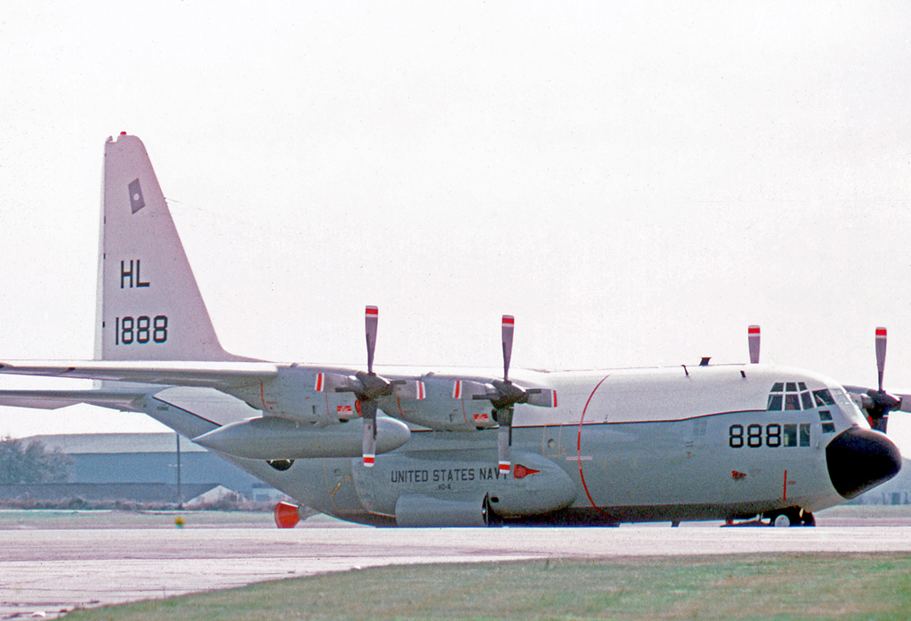 Lockheed EC-130G Hercules of VQ-4 Squadron US Navy at RAF Mildenhall Suffolk UK in 1972